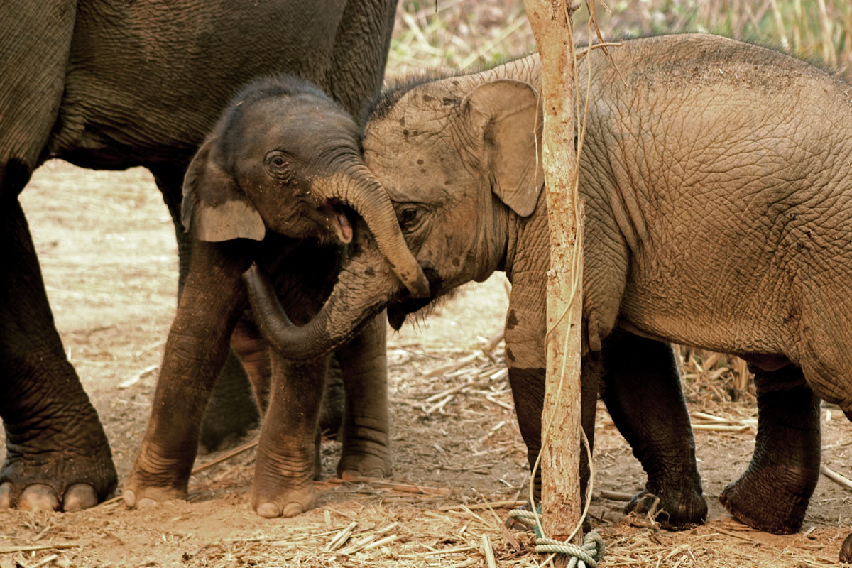 The baby Asian elephants are playing together at the nursery in an elephant conservation center in Laos. In partenership with ElefantAsia this sanctuary hosts an elephant hospital. Photo Fabien BASTIDE